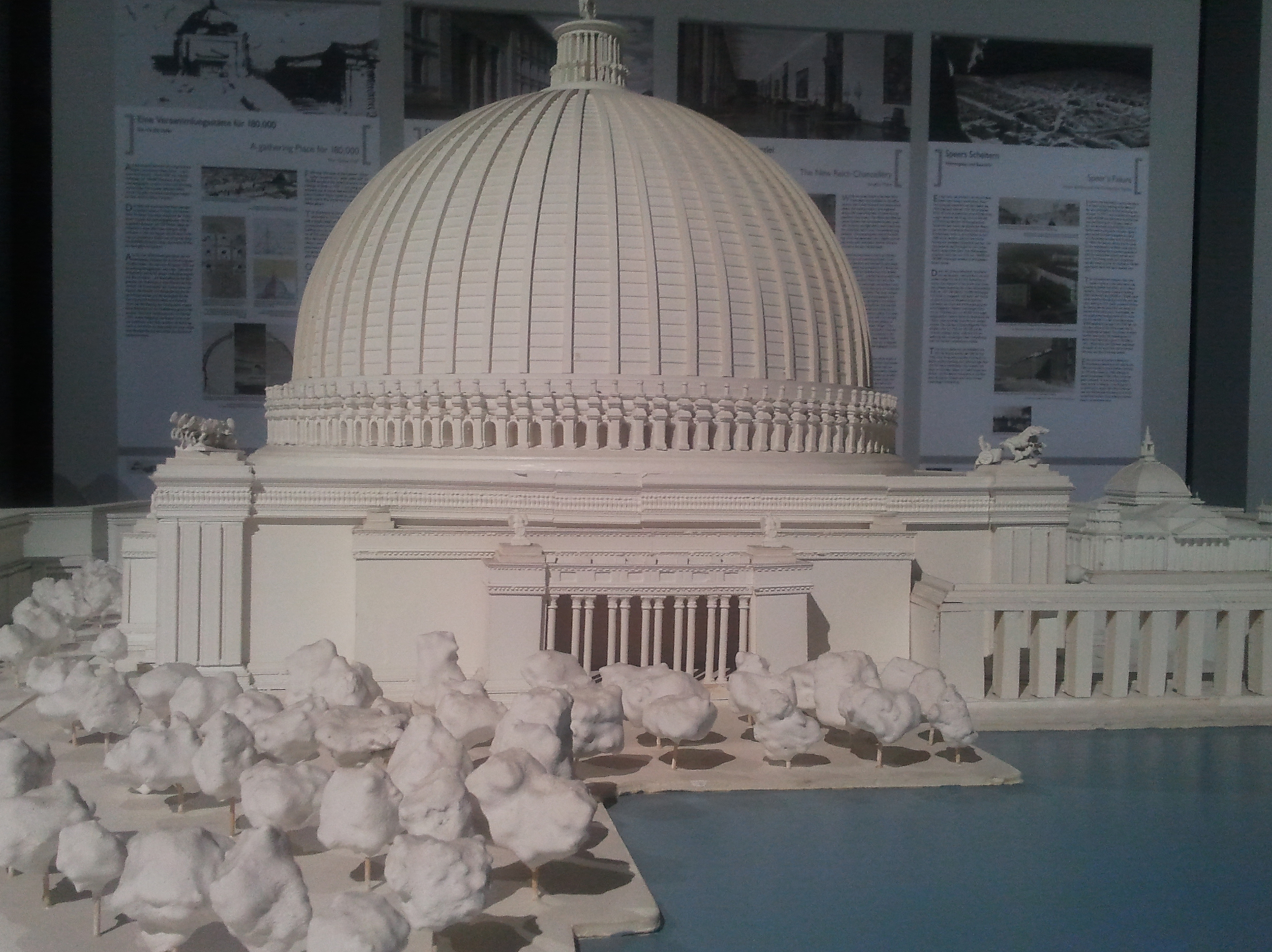 Model of the Große Halle (also called Ruhmeshalle or Volkshalle), west view. The entire architectural model is composed of three parts resp. segments: The central part (from the triumphal arch to the Volkshalle) was built for the 2004 movie Downfall (Oliver Hirschbiegel) and is not a fully accurate realization of the Generalbauinspektor's plan. For the 2005 movie "Speer und Er" (Heinrich Breloer) the model was expanded with the significantly more precise southern and northern railway stations and its forecourts. Part of the Myth "Germania" and the "Temple City" of Nuremberg exhibition at the Documentation Center in Nuremberg (April 7, 2011 - September 11, 2011).